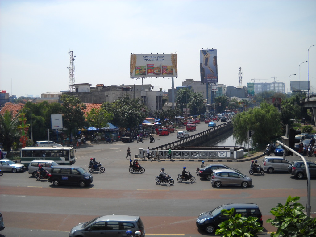 Grogol area, West Jakarta, Indonesia.